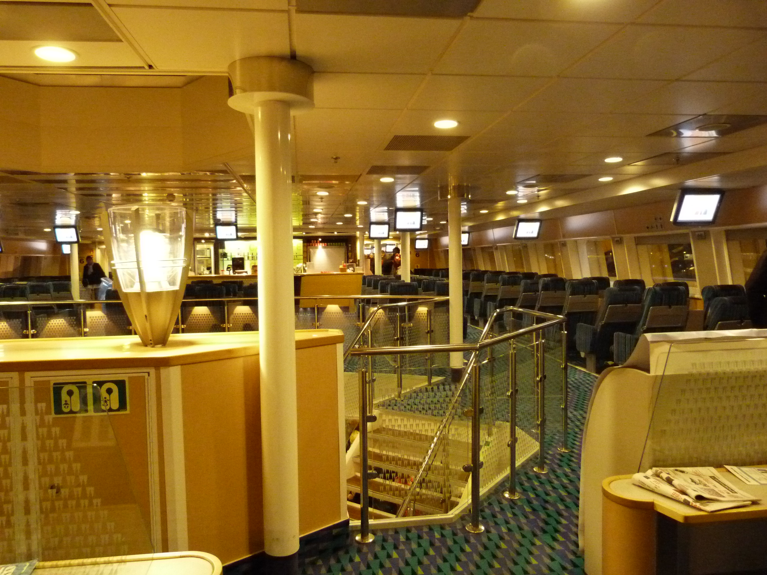 Lounge deck 6, HSC Gotlandia II